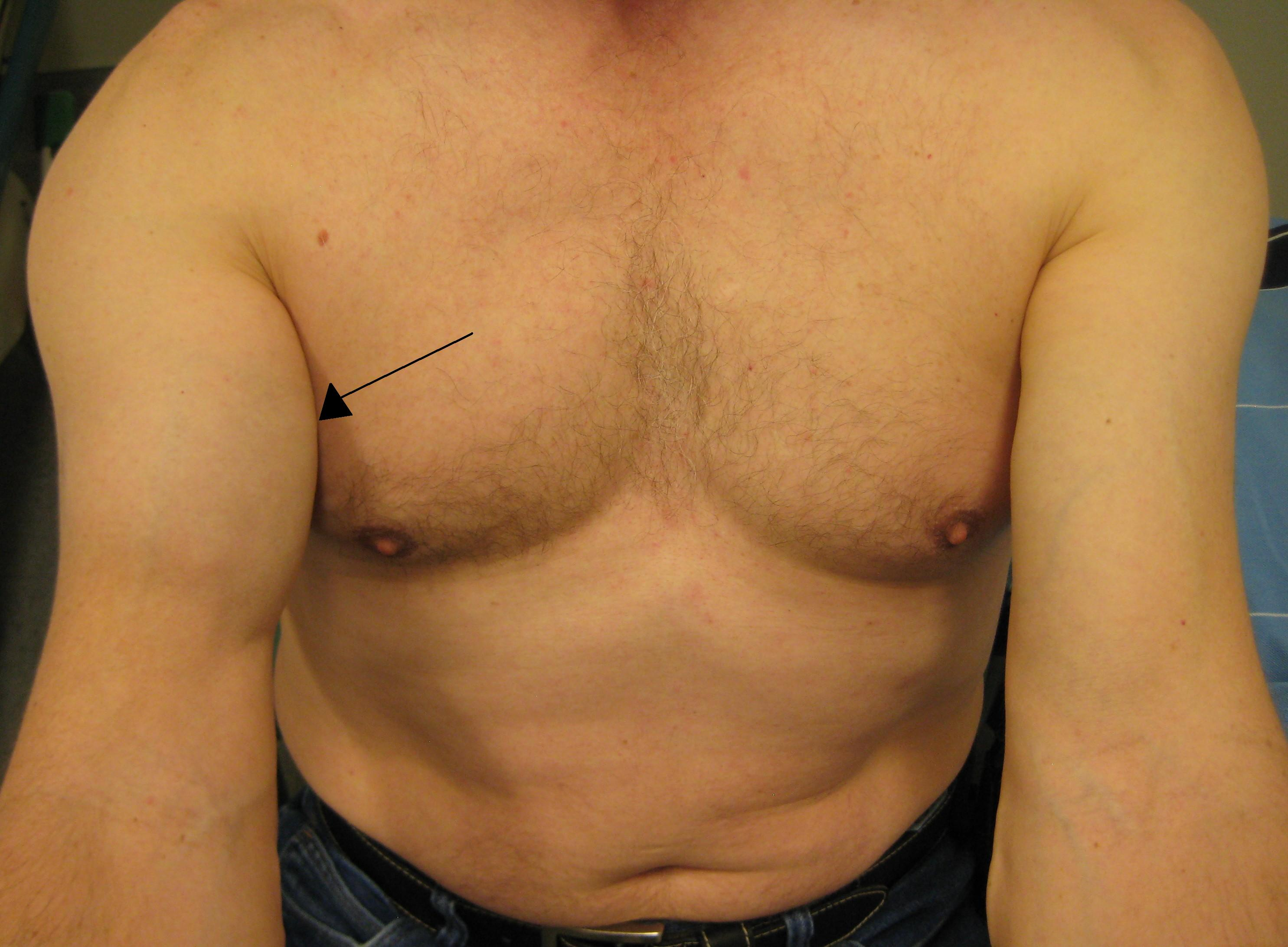 Right distal bicipital tendon rupture.